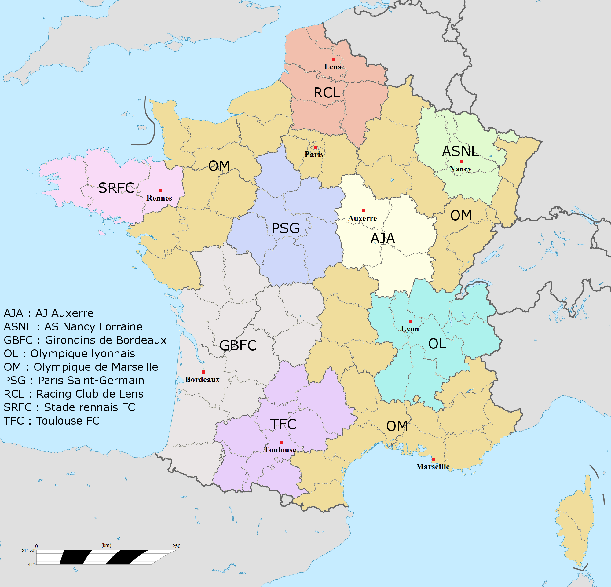 Favourites french football clubs by administrative regions (2010)